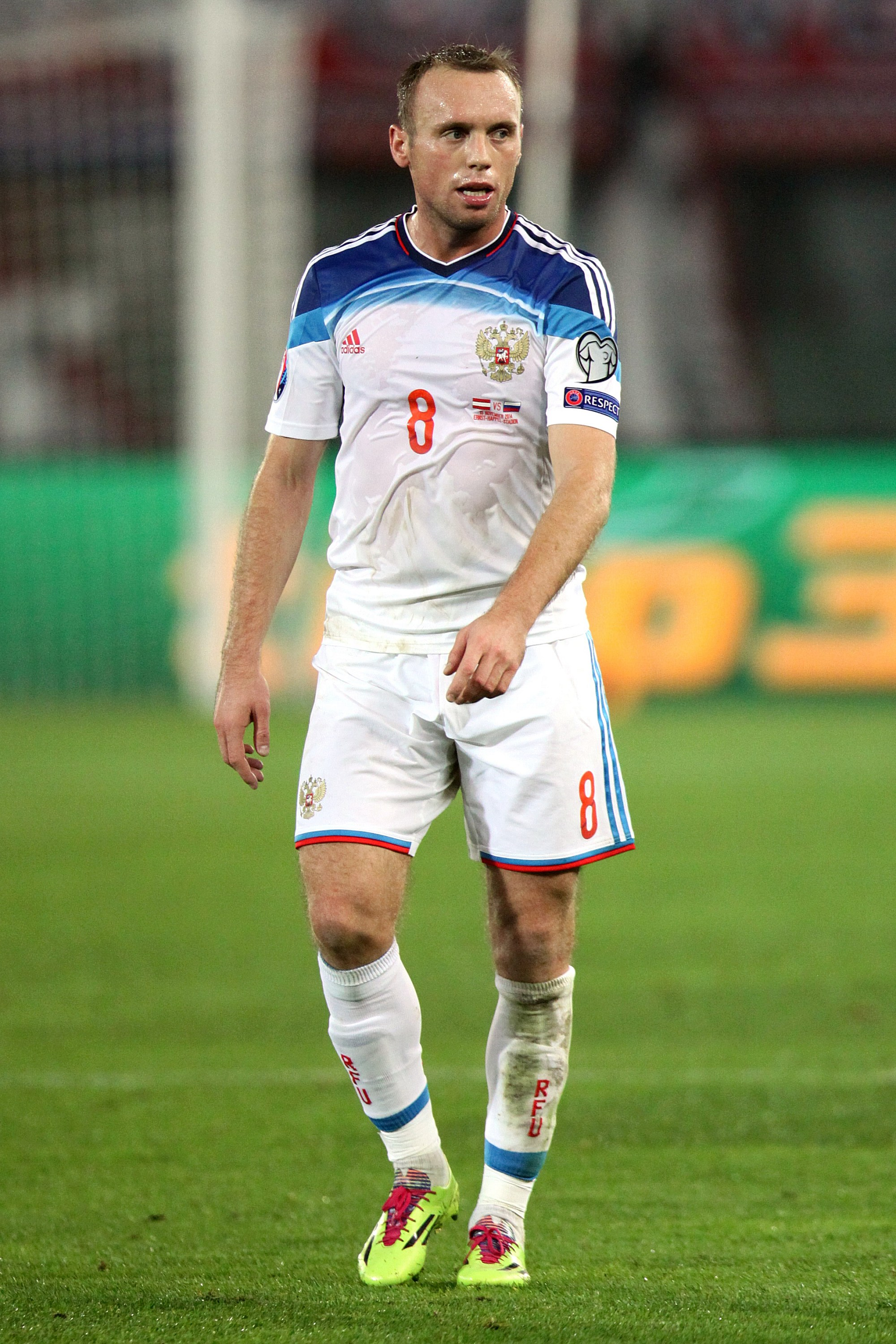 UEFA Euro 2016 qualifying: Austria vs. Russia (1:0 / 0:0) at 2014-11-15 in the Ernst-Happel-Stadion in Vienna. – The photo shows Denis Glushakov (Russia).